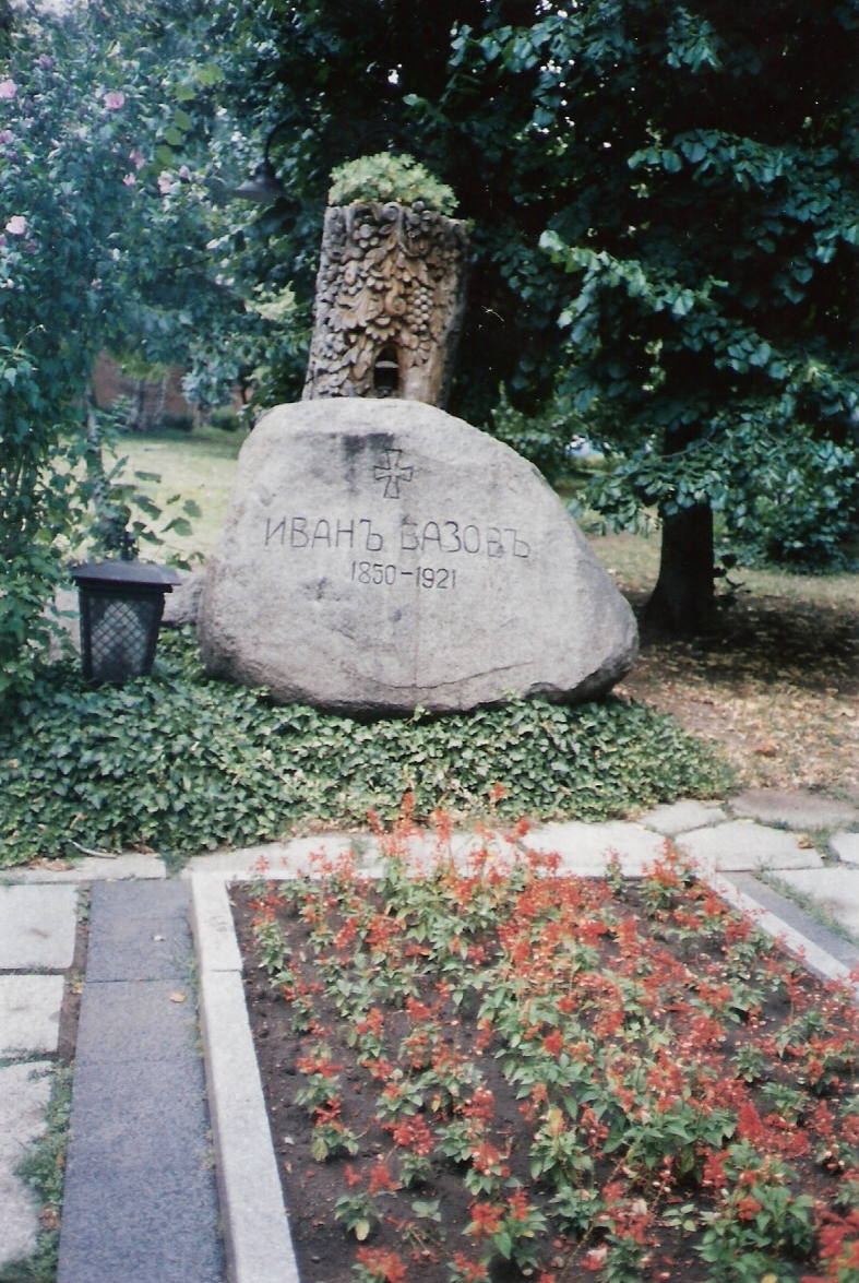 tomb of ivan vazov in sofia